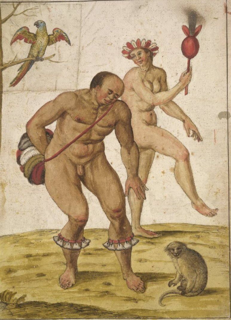 Tupinamba Indians dancing